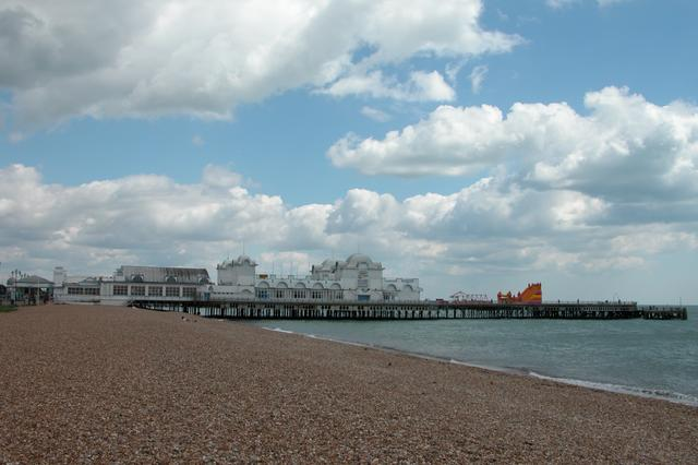 South Parade pier, Southsea. The pier was built in 1879 as a landing stage for paddle steamers crossing to the Isle of Wight.